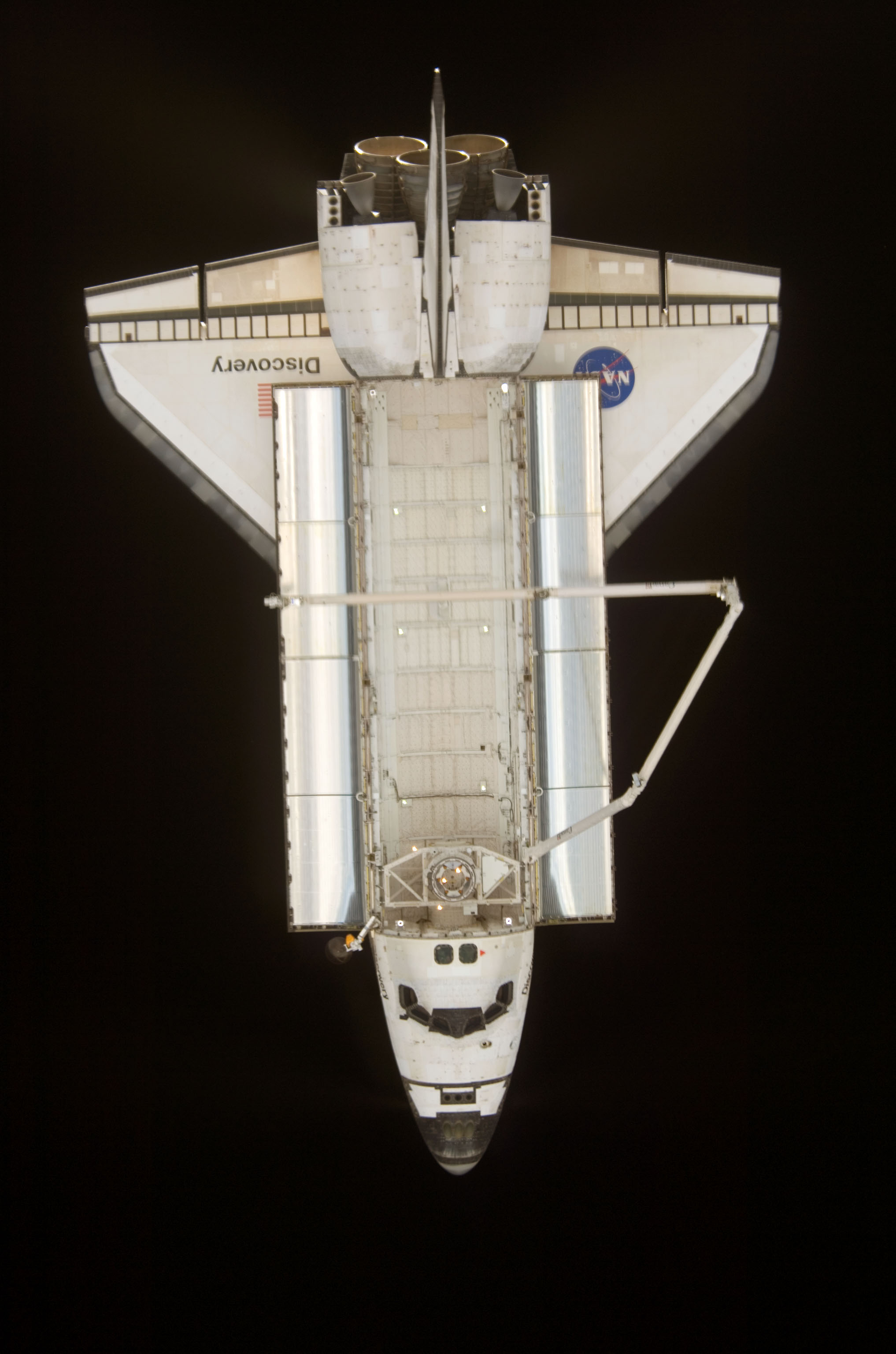 A view of the Space Shuttle Discovery backdropped against the blackness of space soon after the shuttle and the International Space Station began their post-undocking relative separation on June 11.